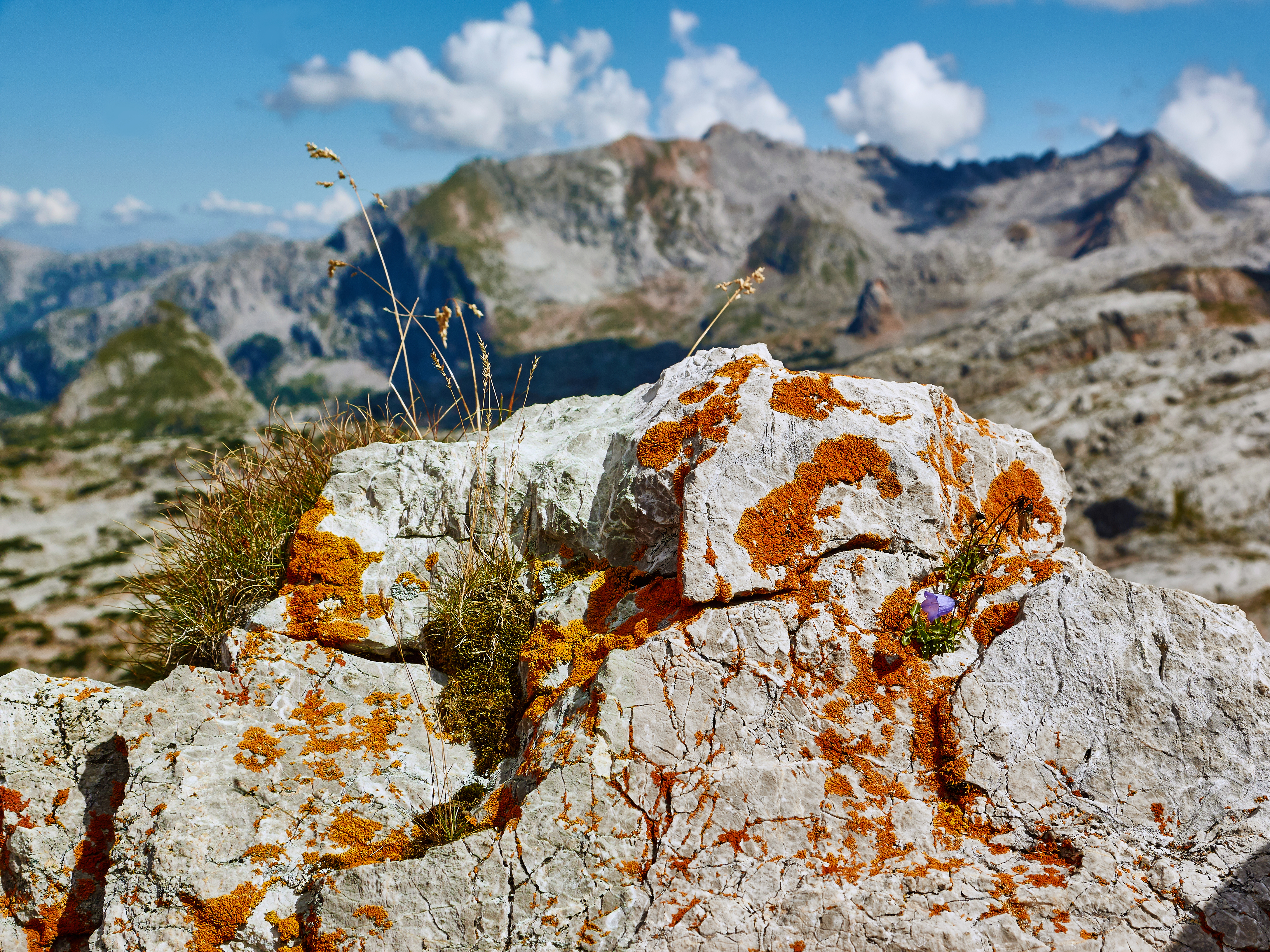 Lichen at Weißbachlscharte, a 2259 m high mountain pass located in the mountain range of Steinernes Meer, Saalfelden, Austria.